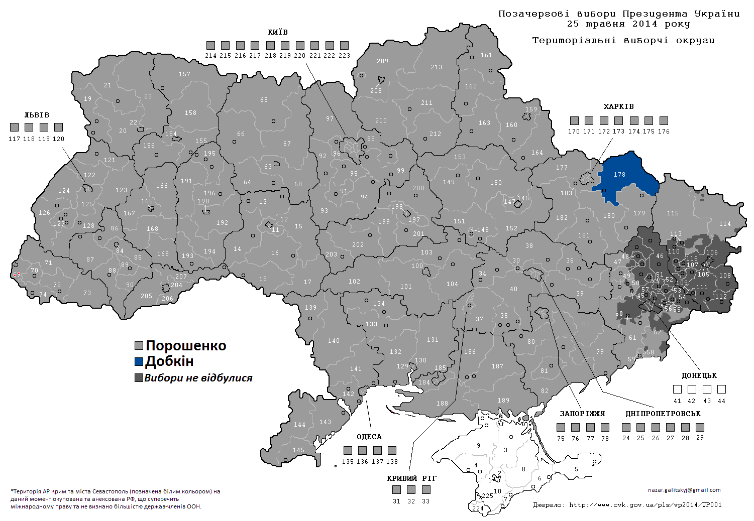 Ukrainian election map Electoral districts which voted for Petro Poroshenko Electoral districts which voted for Mykhailo Dobkin Electoral districts in which elections were not held due to separatist insurgency Electoral districts in which elections were not held due to their prior annexation by Russia